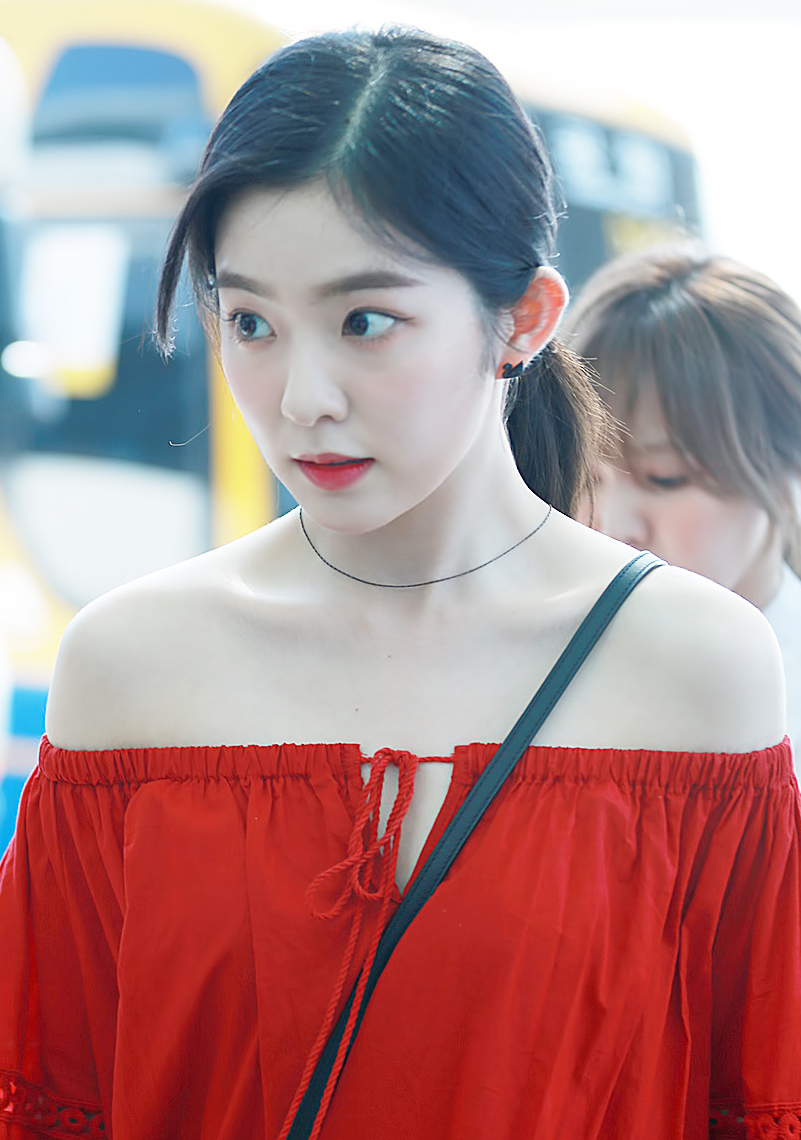 Irene Bae at Incheon Airport on June 22, 2018.